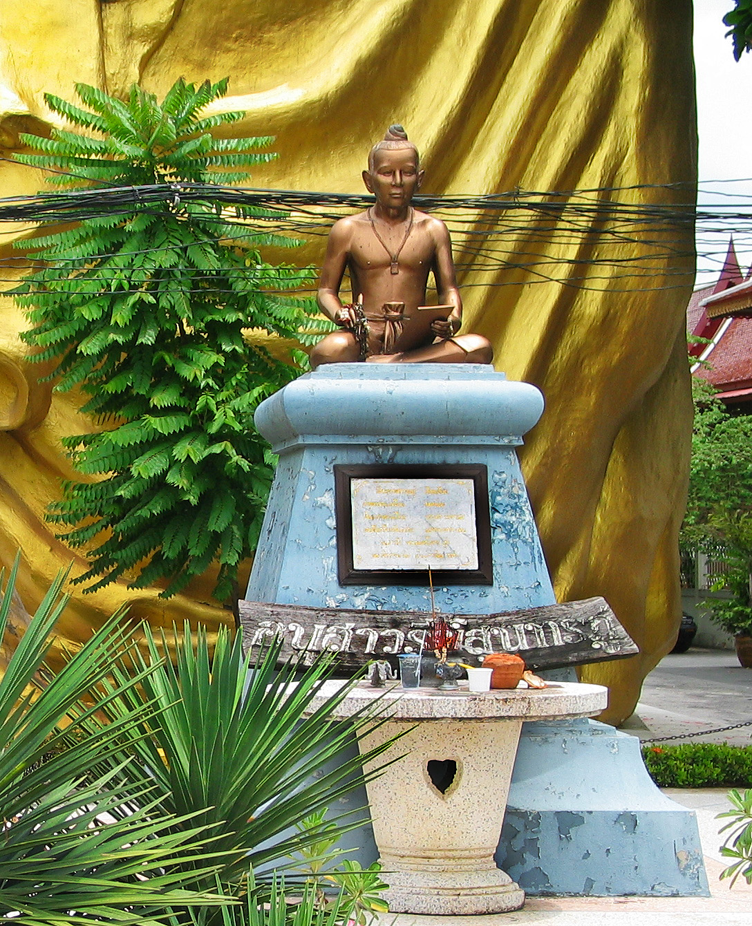 Monument of Sunthorn Phu, Thailand's best-known poet, in Wat Sri Sudaram, Bangkok, Thailand. Own Photo June 2005.